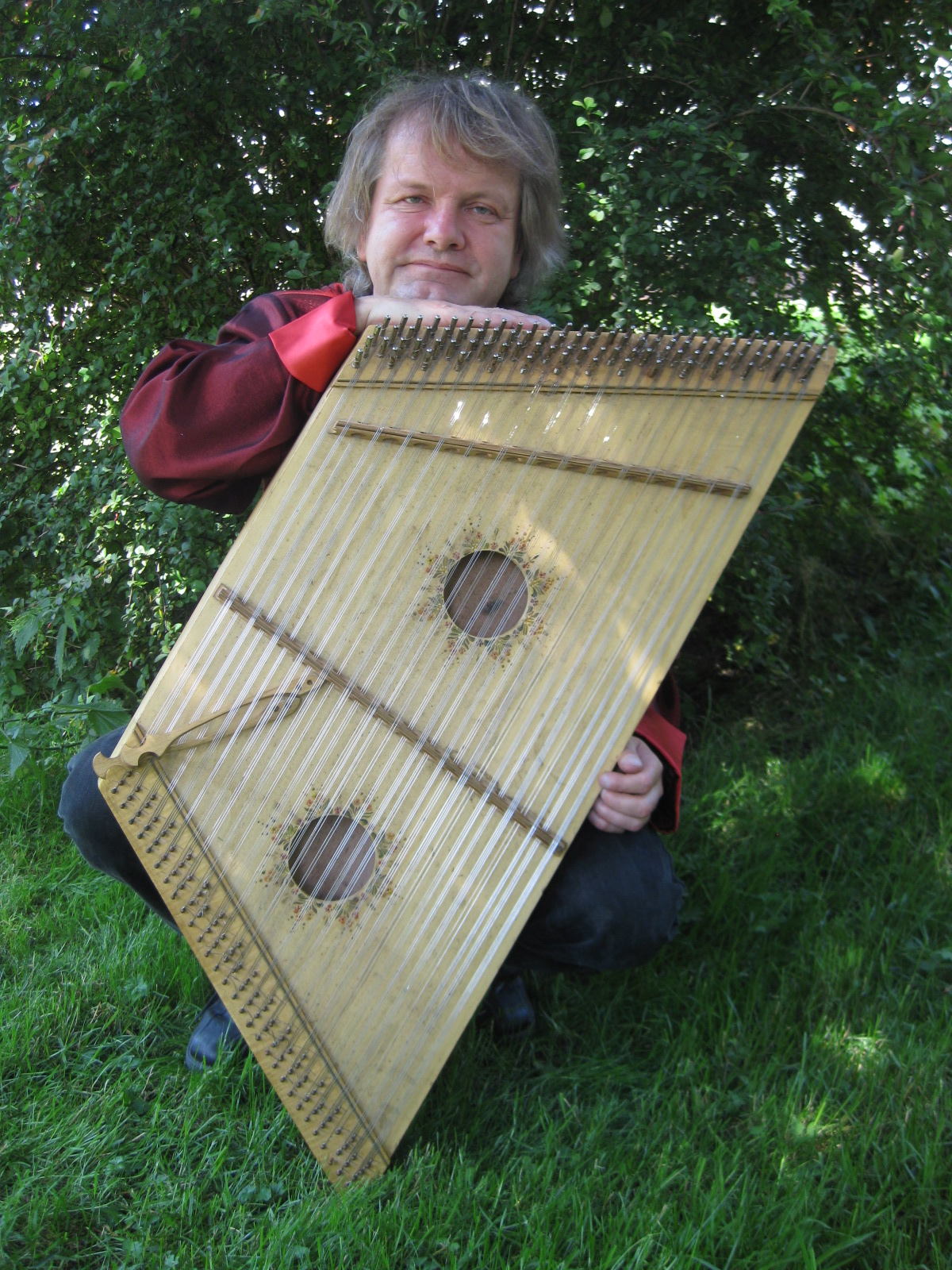 Sigi Lemmerer with his hammered dulcimer, taken in Wörschach, Austria.